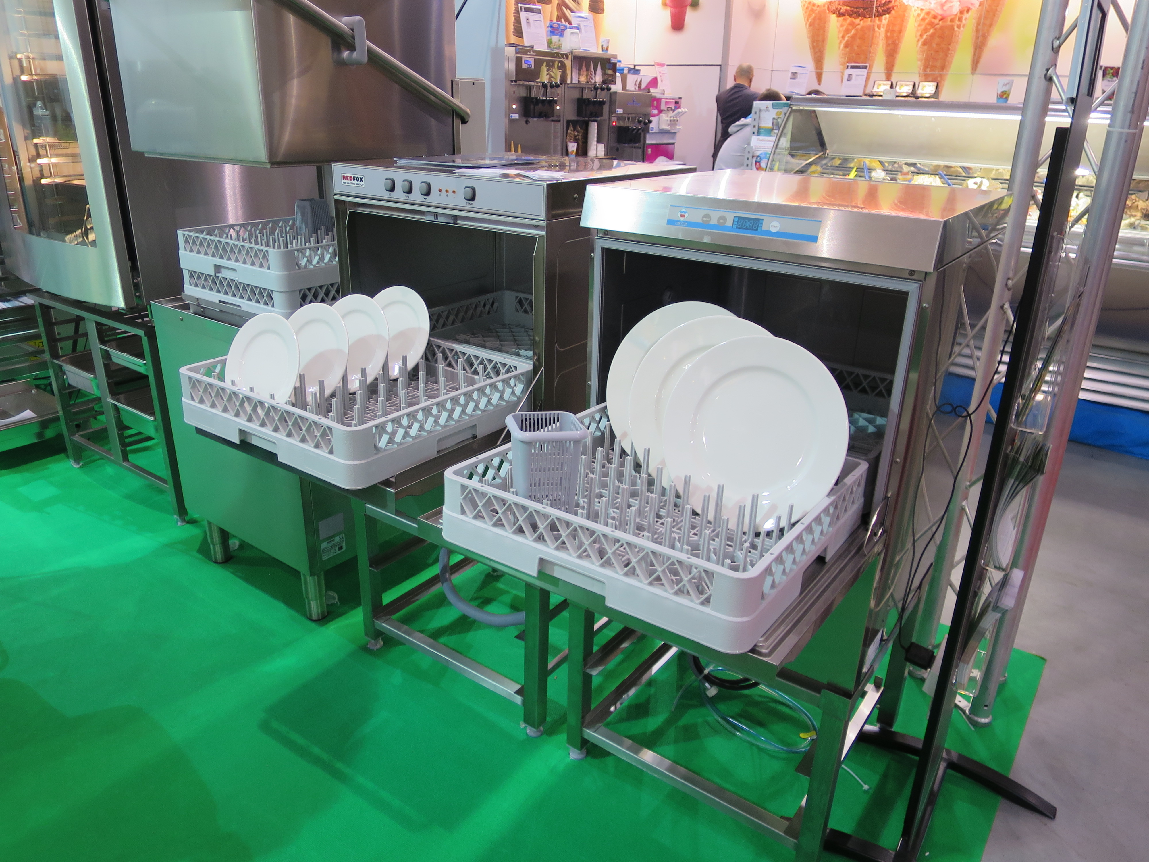 Zmywarki The making of this document was supported by Wikimedia Polska Association, within Wikigrant no. WG 2015-48. English | polski | +/−